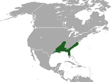 Southern Short-tailed Shrew (Blarina carolinensis) range